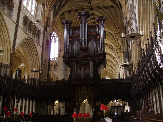 Exeter Cathedral organ The case of the magnificent organ dates from 1665.